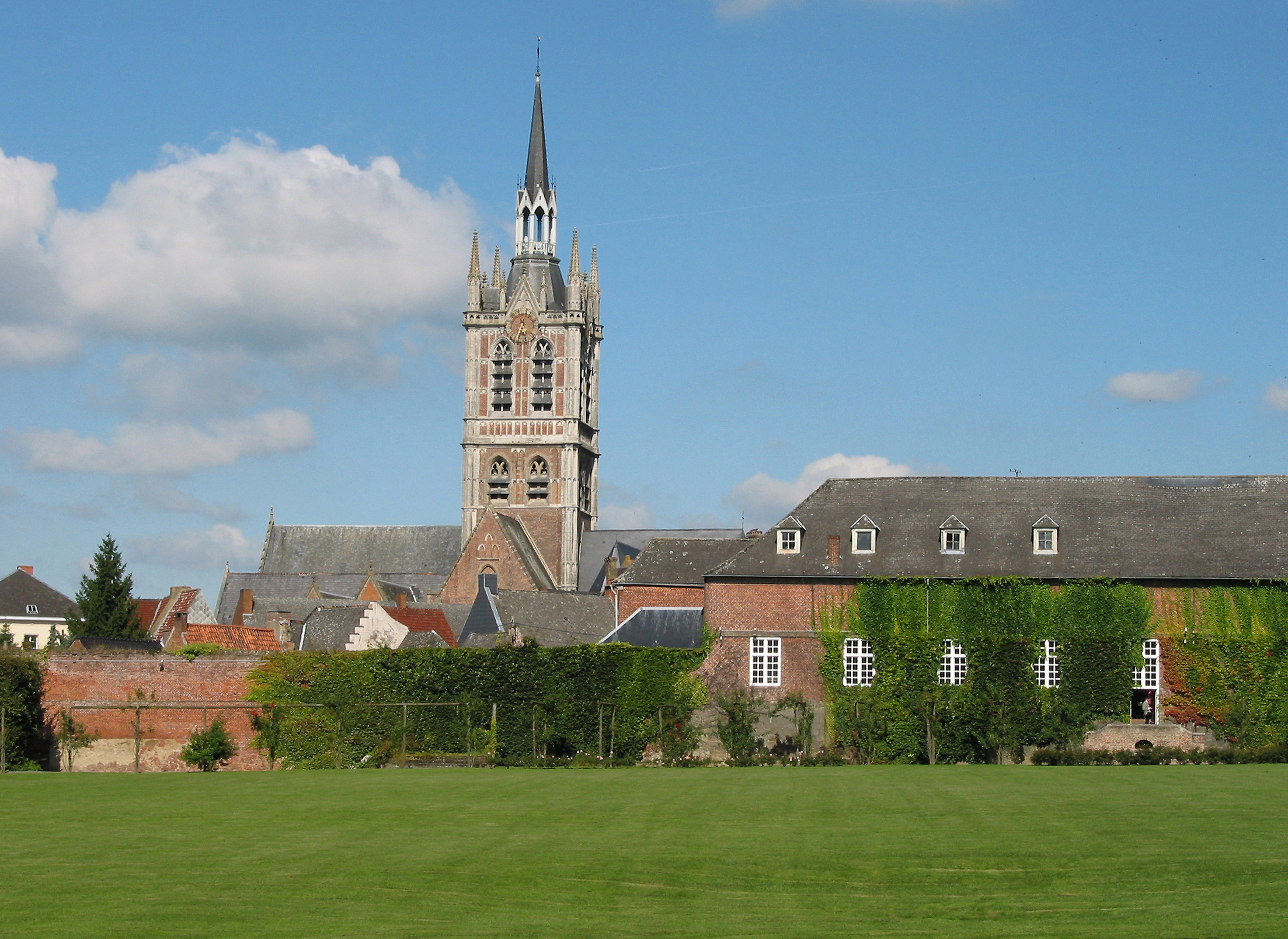 Enghien (Belgium), the St. Nicolas of Smyrne church (XIV/XIXth century) seen from the castle park.